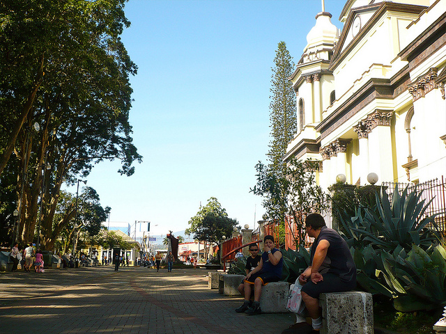 It's a picture I took in Alajuela, Costa Rica